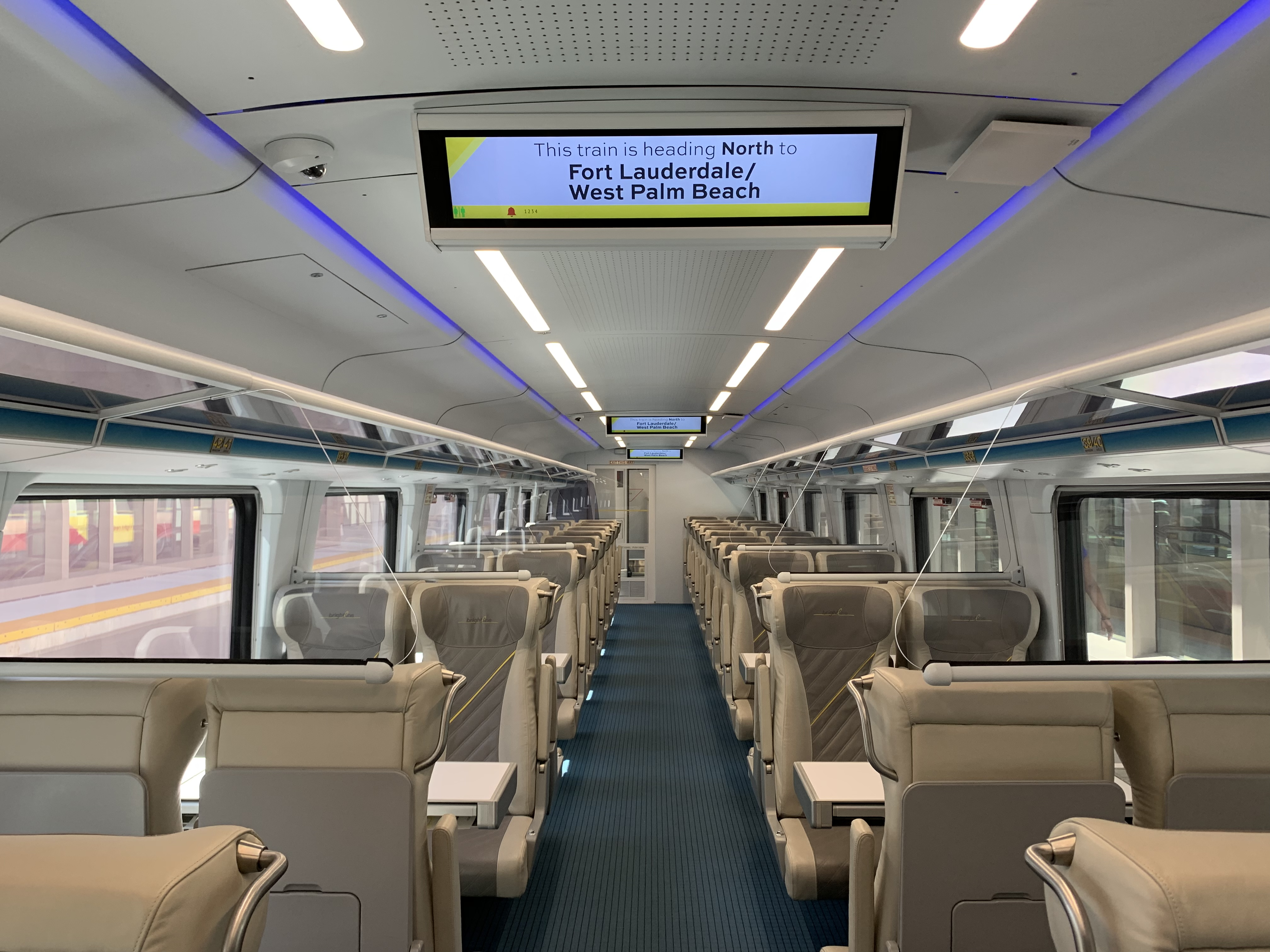 Brightline Train